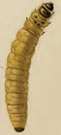 Stainton’s Natural History of the Tineina (1855–1873): Coleophora serenella